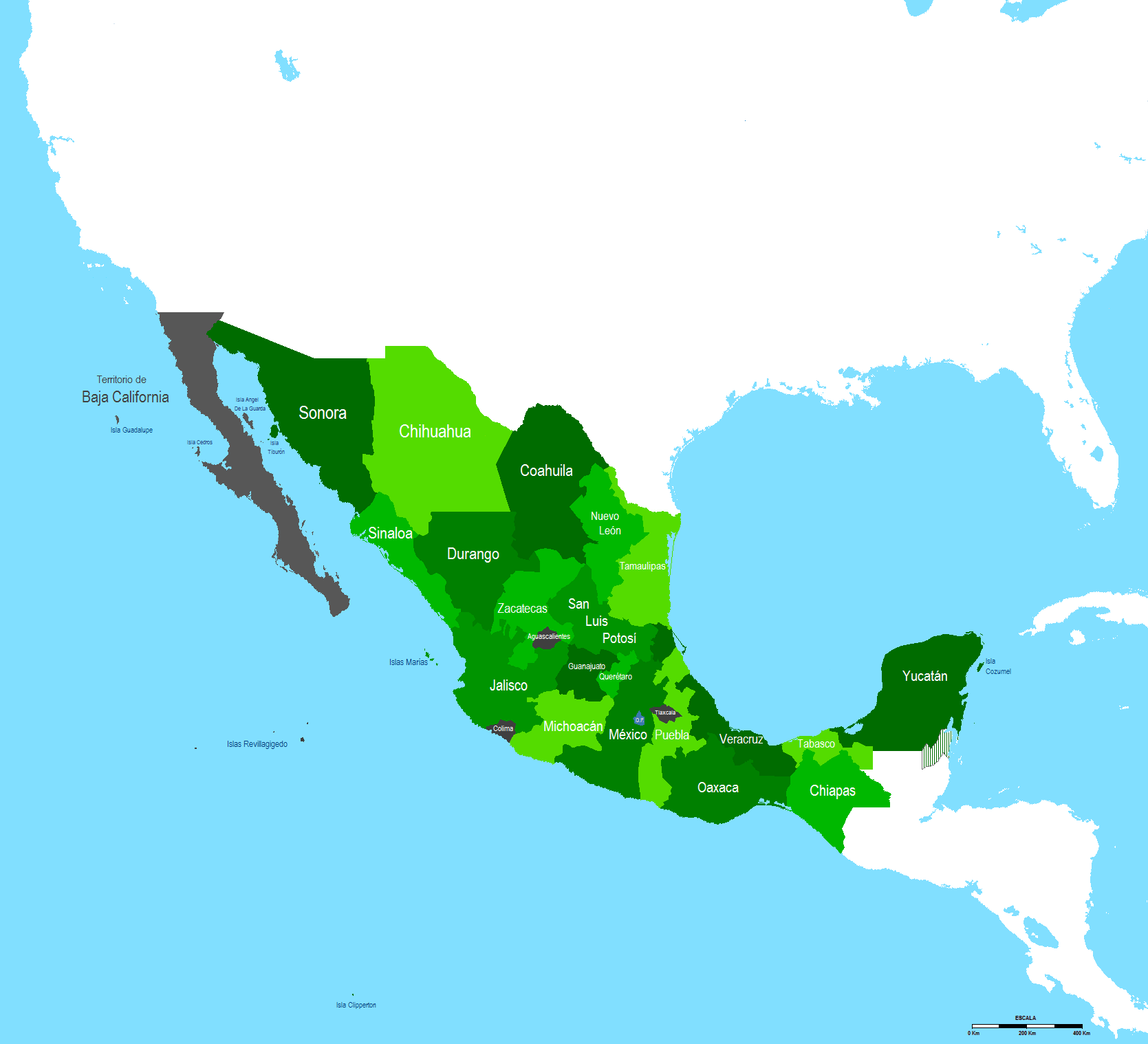 Map of Mexico in 1854, after the Gadsden Purchase.